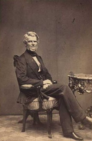 Torkil Abraham Hoppe (1800-1871), Danish district officer.